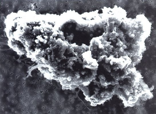 Displayed in a close-up under an electron microscope, this tiny bit ofcosmic dust may be ourfirst sample of a passing comet. Less than one-tenth of a millimeter across, the particle is composed ofmillions ofeven tinier crystals. Although chemically similar to some meteorites, itsfluffy, crystalline structure is unlike that of any known meteorite. Interplanetary dust particles like this are trapped in special collectors flown aboard high-altitude aircraft. Their interplanetary origin is established by analyzing the gases that they trapped from the Sun while still in space. The interplanetary dust is believed to come from comets, which shed material as they are warmed by the Sun. It may be possible to collect material from a particular comet when one passes close enough to the Earth some day.